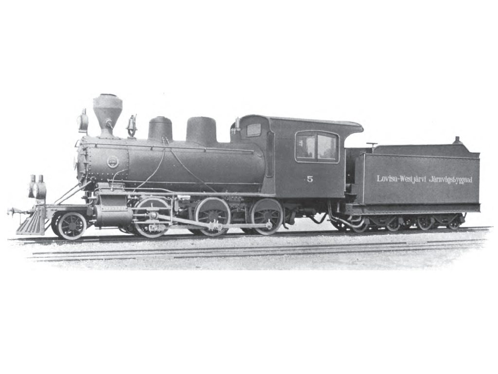 A Mogul (2-6-0) -type narrow gauge steam engine LWR5. Built in 1899 by the Brooks Locomotive Works for the Lovisa-Wesijarvi Railway of Finland.